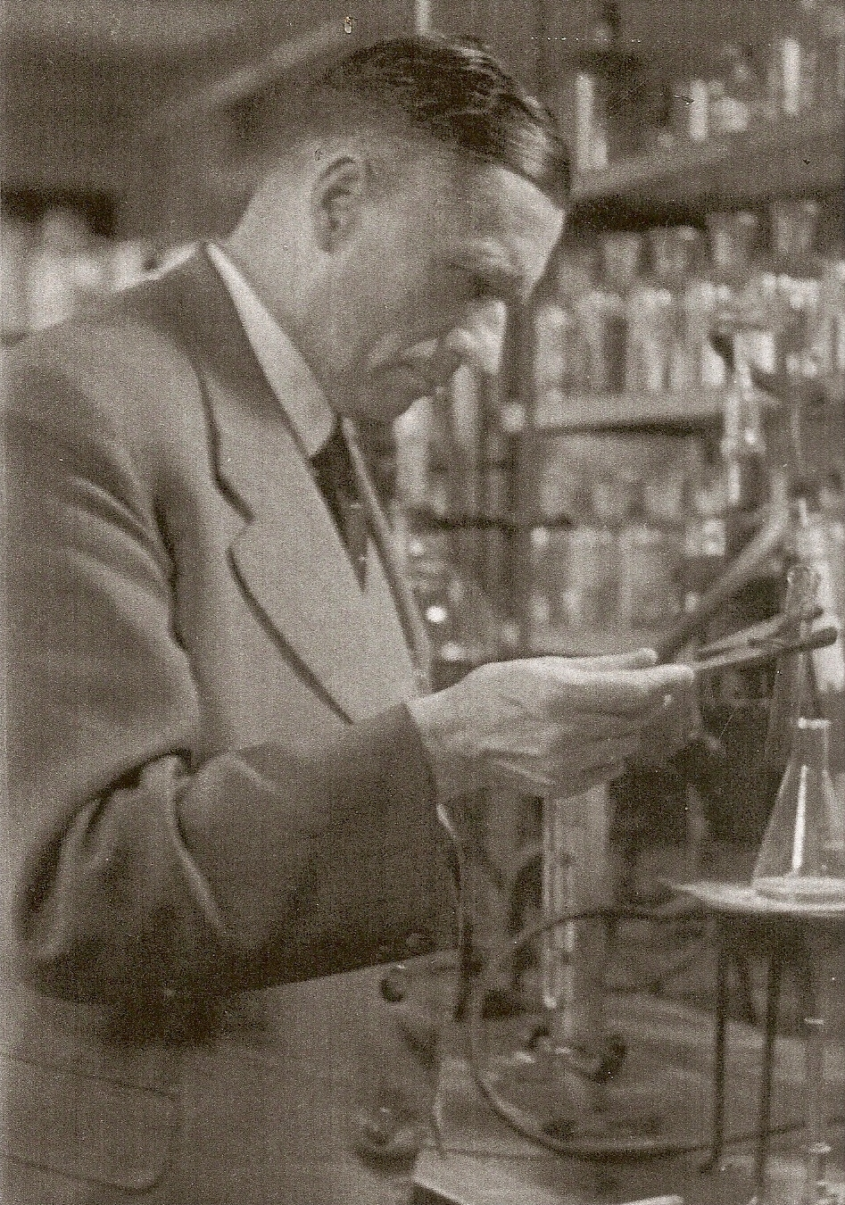 Carl Krauch at Bayer (1942)